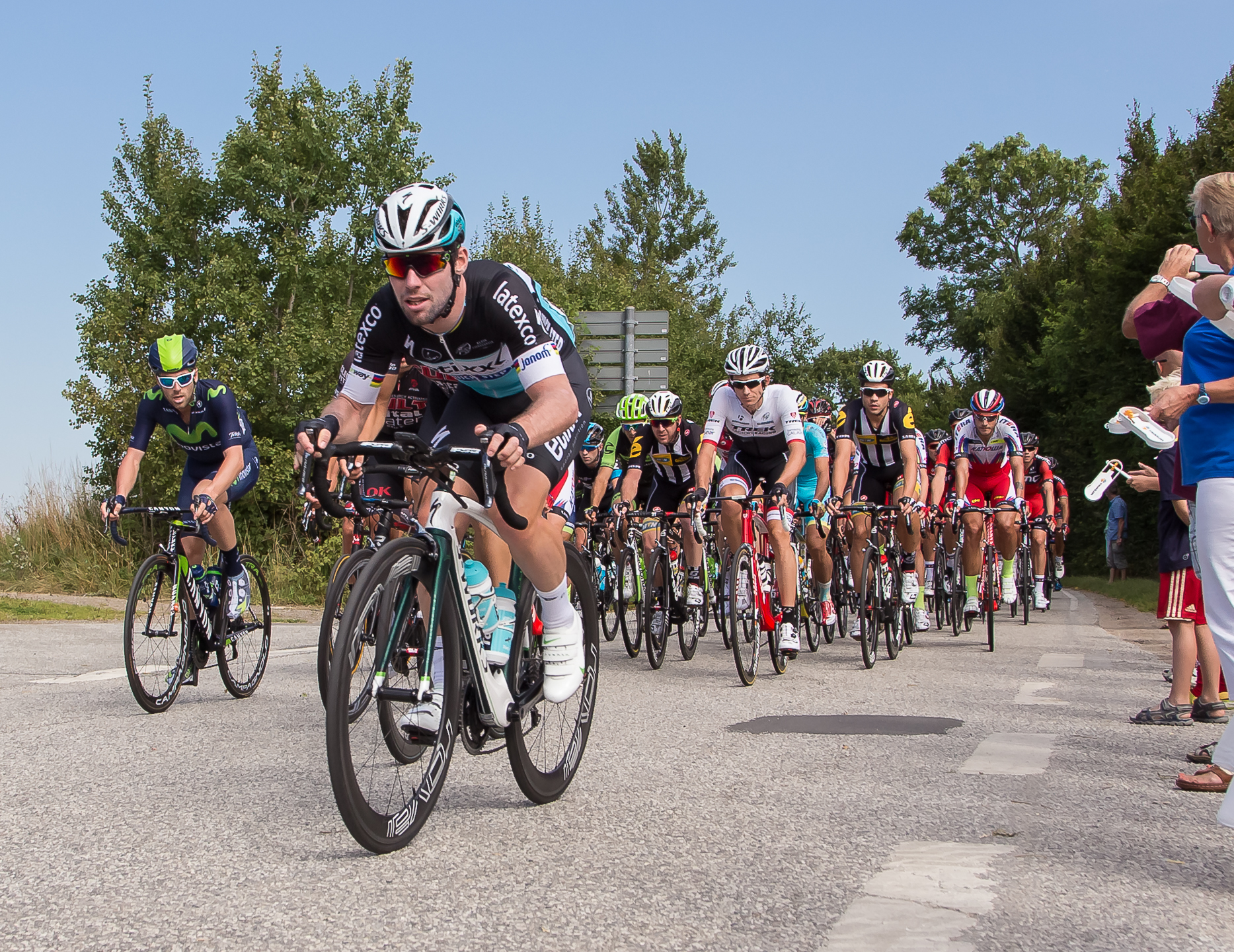 Riders at the 2015 Vattenfall Cyclassics